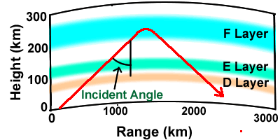 Diagram of a ray showing the incident angle and refraction in the F layer. This ray that is at a lower frequency than the F layer MUF, but higher than the E layer MUF.